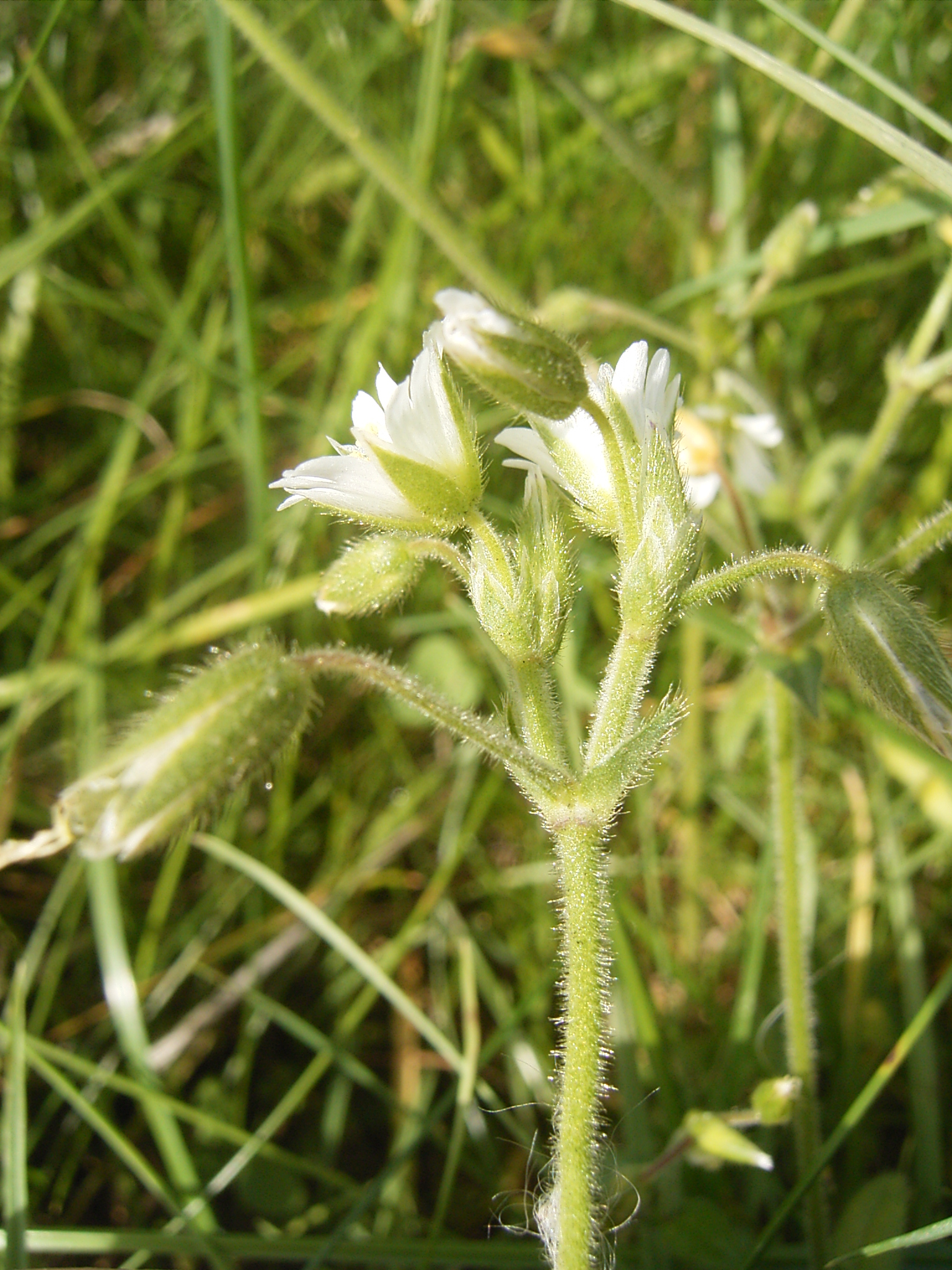 This photo shows Cerastium fontanume'